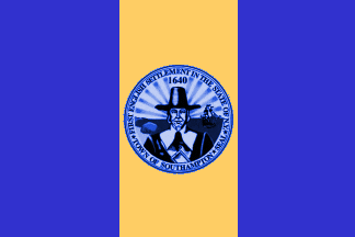 The official town flag of Southampton, New York, adopted in December 1929.